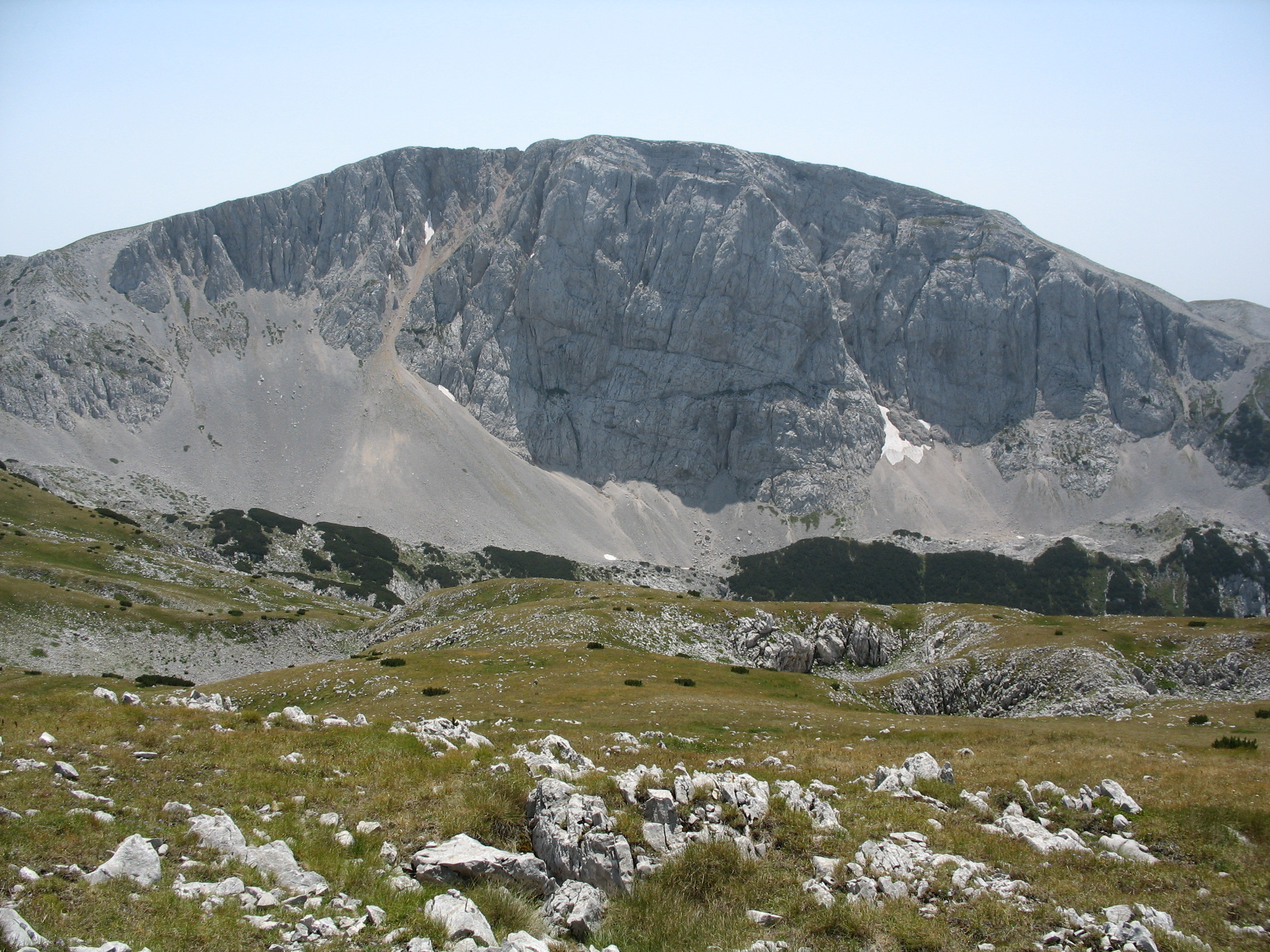 Mountain Vlasulja (2336 m) in Volujak Mts. (Bosnia and Herzegovina, Montenegro) from Trnovački Durmitor (2235 m)